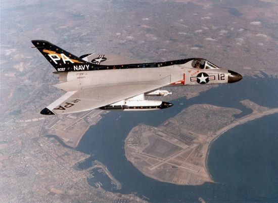 A U.S. Navy Douglas F4D-1 Skyray (BuNo 139097) from All Weather Fighter Squadron VF(AW)-3 Blue Nemesis in flight over San Diego, California (USA).